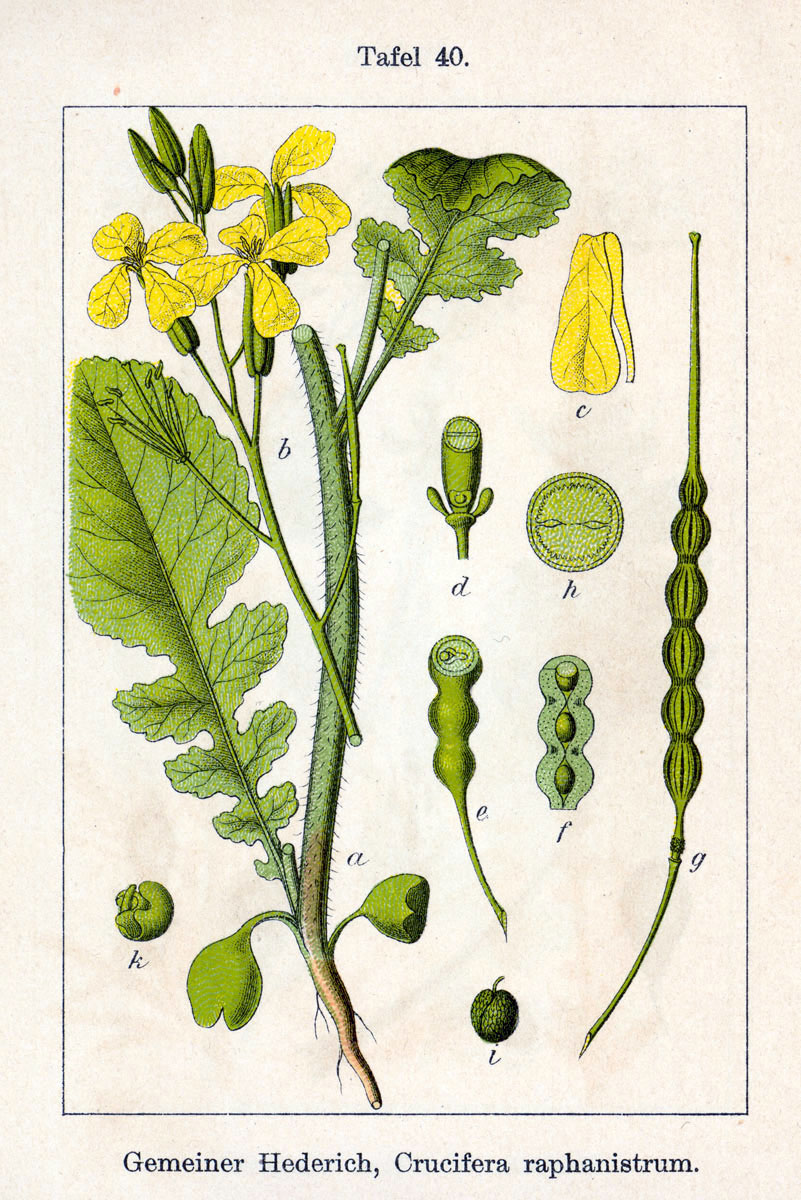 Raphanus raphanistrum subsp. raphanistrum, syn. Crucifera raphanistrum E.H.L.Krause Original Description Gemeiner Hederich, Crucifera raphanistrum